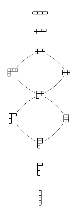 Example of dominance ordering of partitions of n. Here, n=6, nodes are partitions of 6, edges indicate that the upper node is greater the lower node. For n=6, this partial ordering is graded. Authored by Zajj Daugherty.